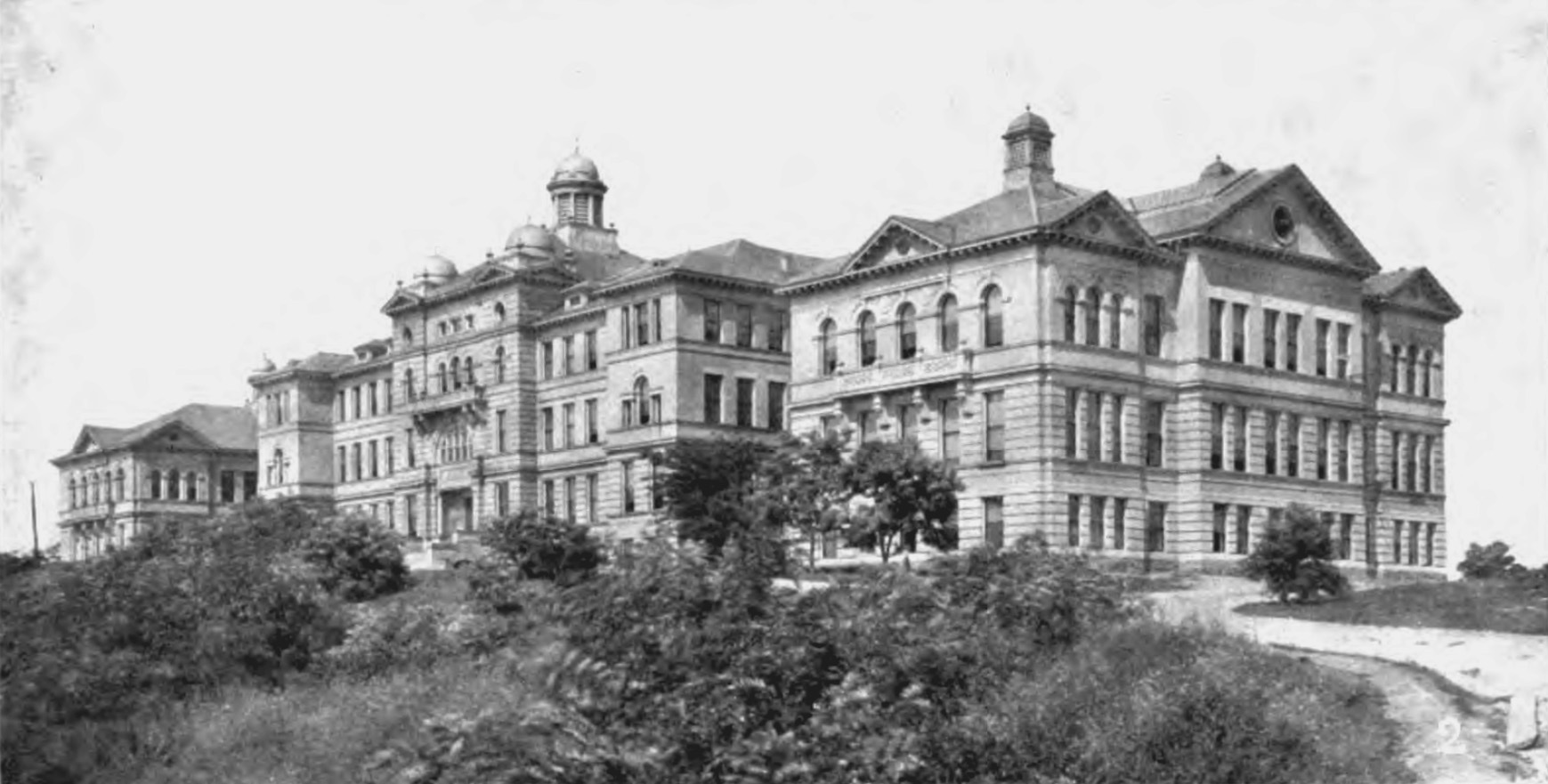 Black and white photograph of buildings of the University of Cincinnati.